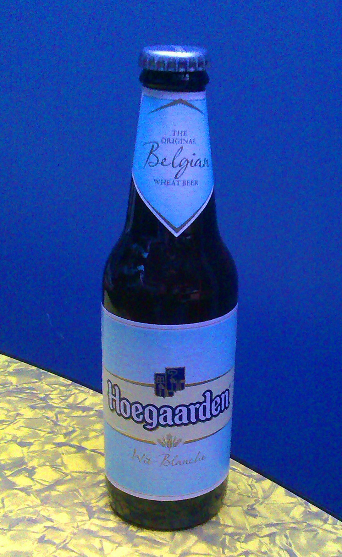 The new label on a bottle of Hoegaarden witbier.